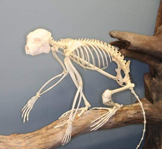 Sifaka skeleton on display at The Museum of Osteology.